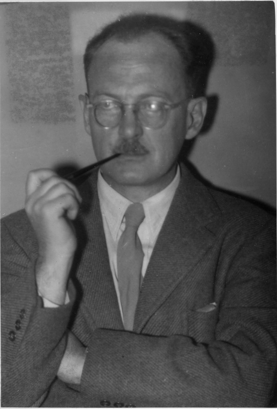 A photo of Owen Lattimore from around 1945